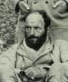 Guy Bullock on the 921 Mount Everest reconnaissance expedition. Published in Howard-Bury, C. K. (1922). Mount Everest the Reconnaissance, 1921 (1 ed.). New York, Longman & Green, page 178